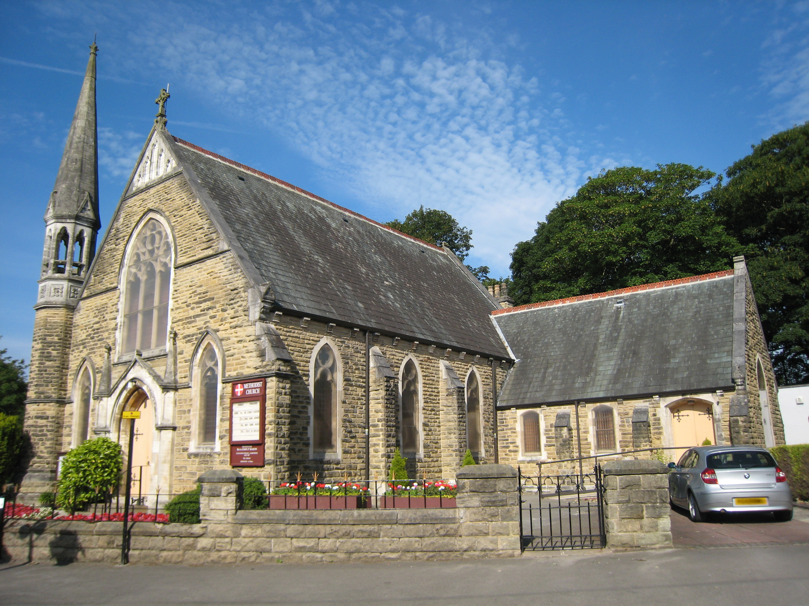 Methodist Church, Barwick in Elmet